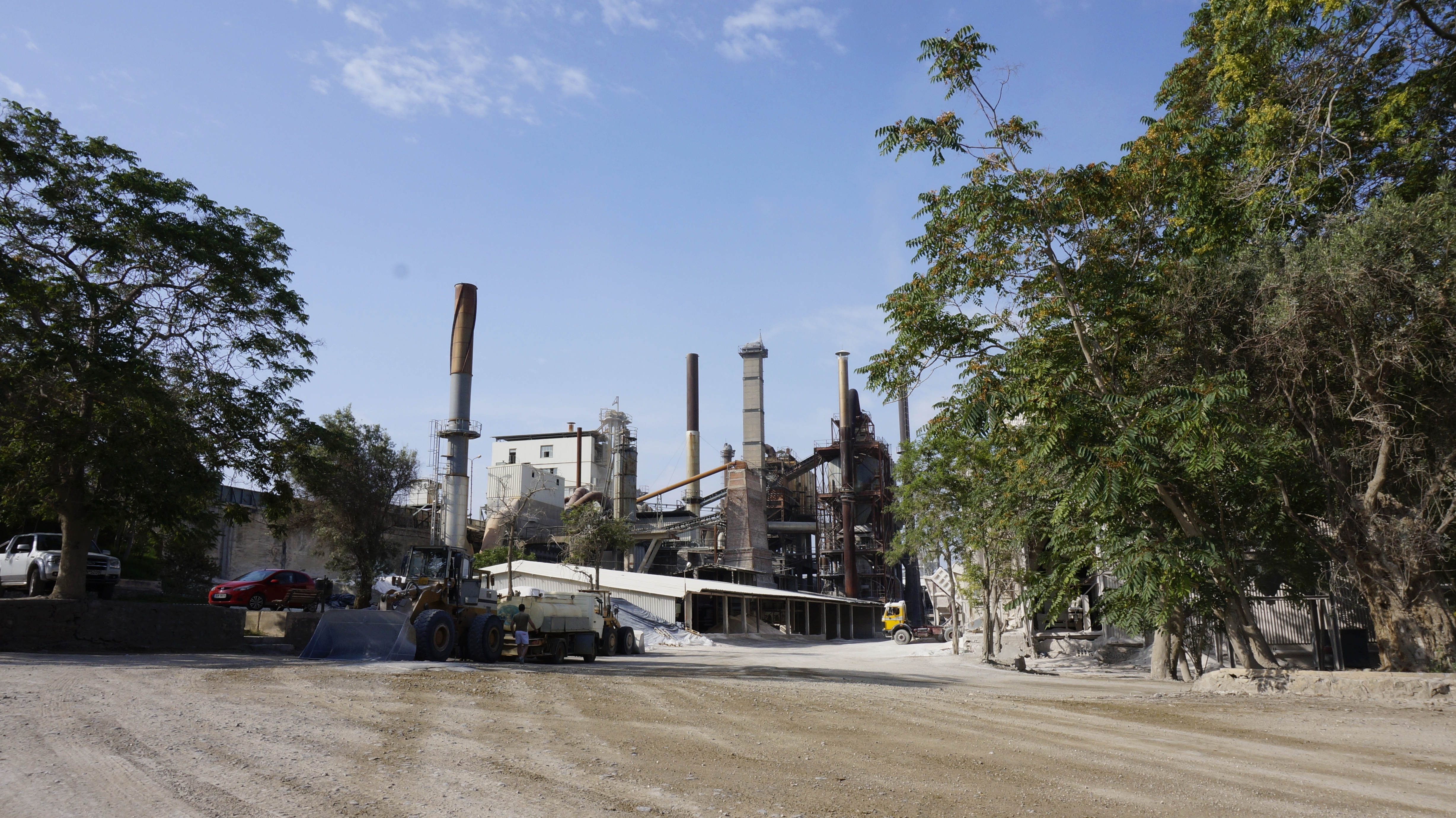 Magnesite Plamt, as seen from the north, in the "Kilns" (Fourni) area of Yerakini, Chalkidiki, Greece, June 2014